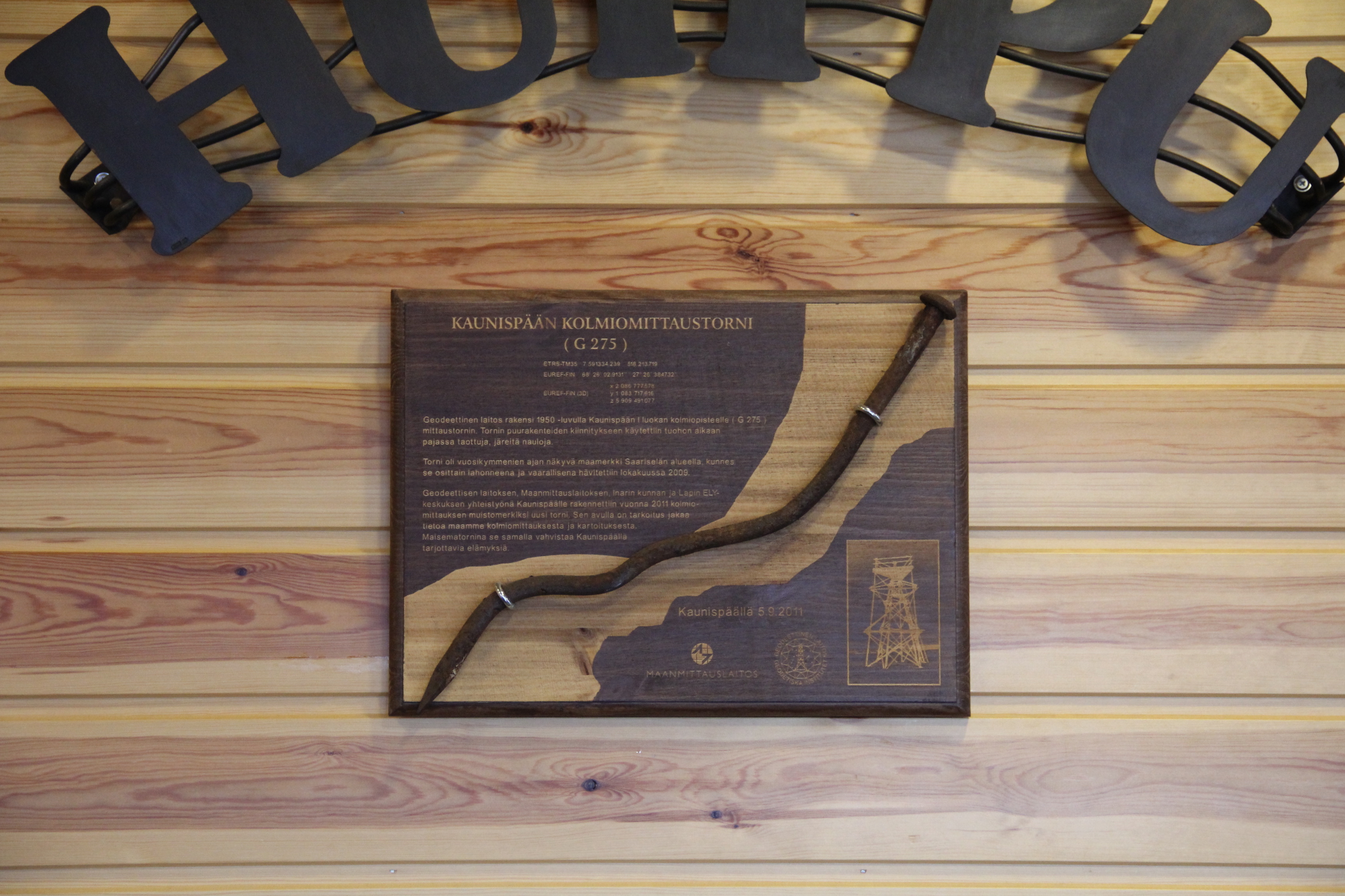 Kaunispää trig point unveiling plaque inside the cafe, Kaunispää, Inari, Finland.